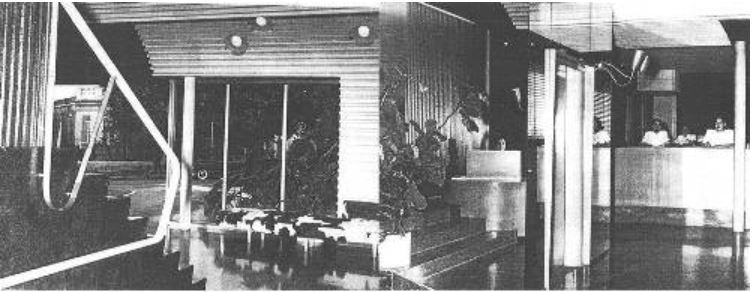 Max Borges Jr._Centro Médico Quirúrgico.2. 1948